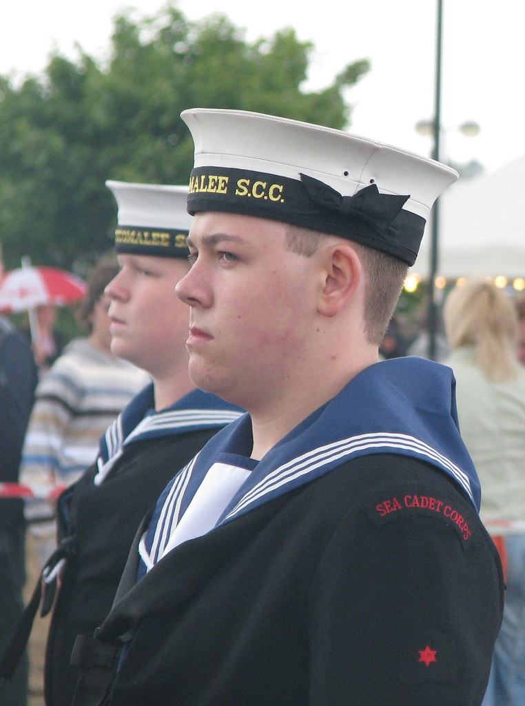 Sea Cadet Corps, Sea Cadet in Number 1 Uniform